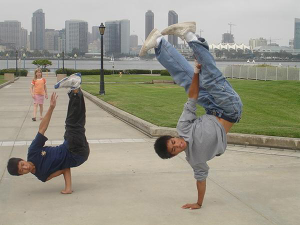 Two breakdancers,Bboy Shun(left),Bboy Jonathan(right) one performing an airchair (left) and one performing a pike (right), both of which are variations of a freeze. Summary Two breakdancers,Bboy Shun(left),Bboy Jonathan(right) one performing an airchair (left) and one performing a pike (right), both of which are variations of a freeze.